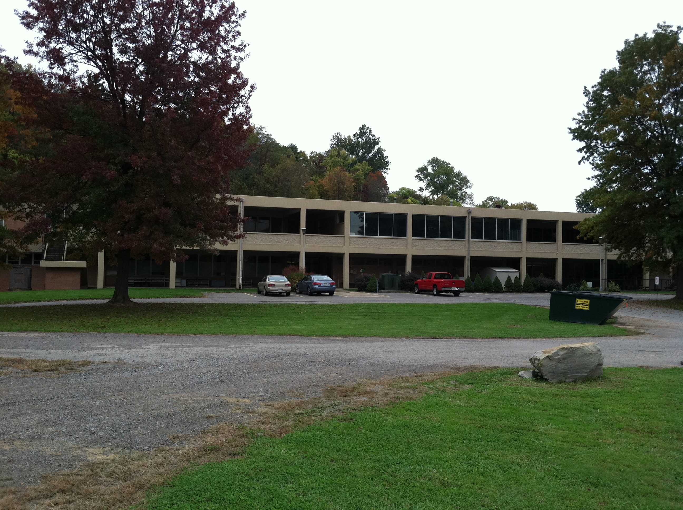 The former geriatric center at Dixmont State Hospital, now leased to the Glen Montessori School and private offices.